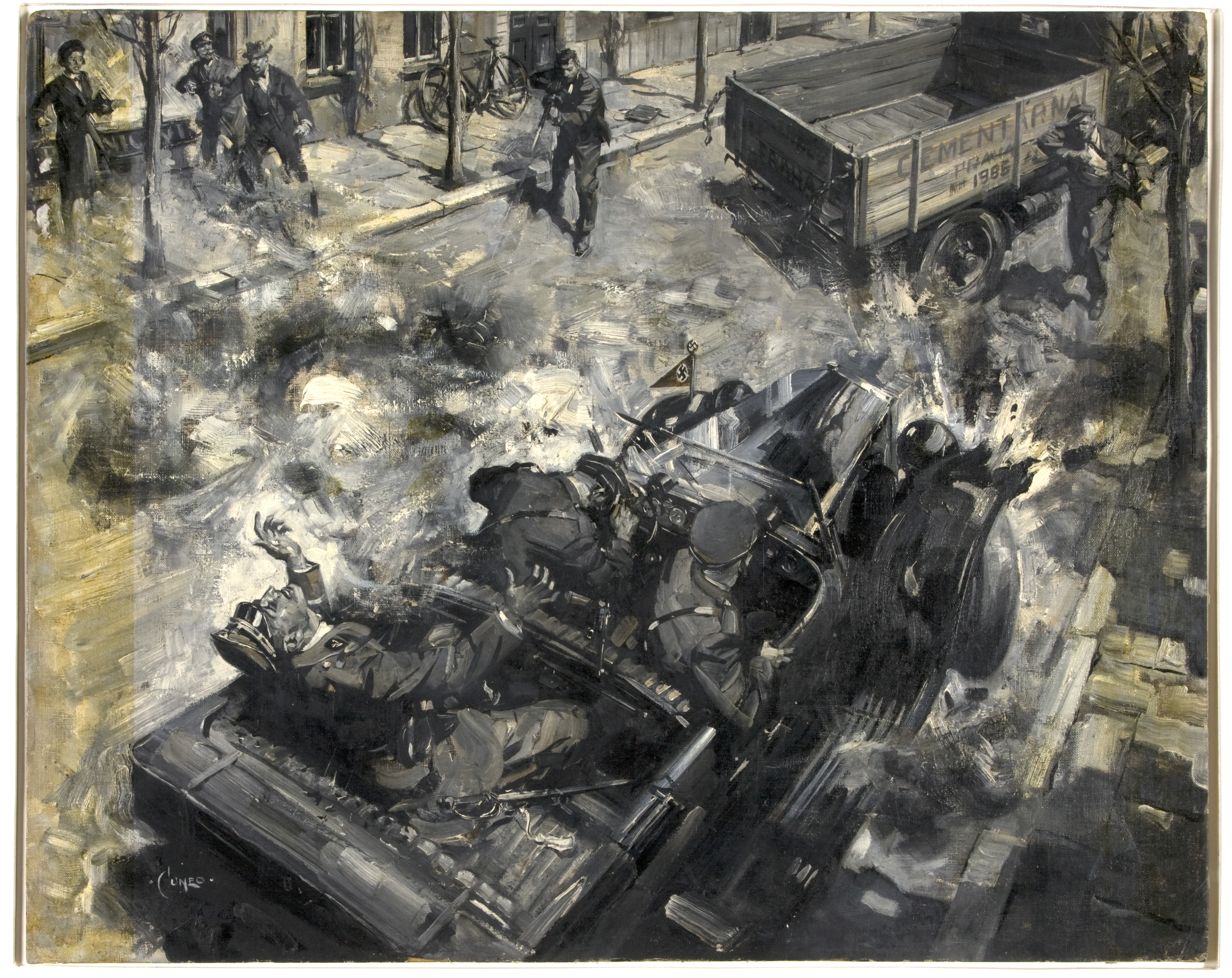 Assassination of Reinhard Heydrich Depicted person: Reinhard Heydrich